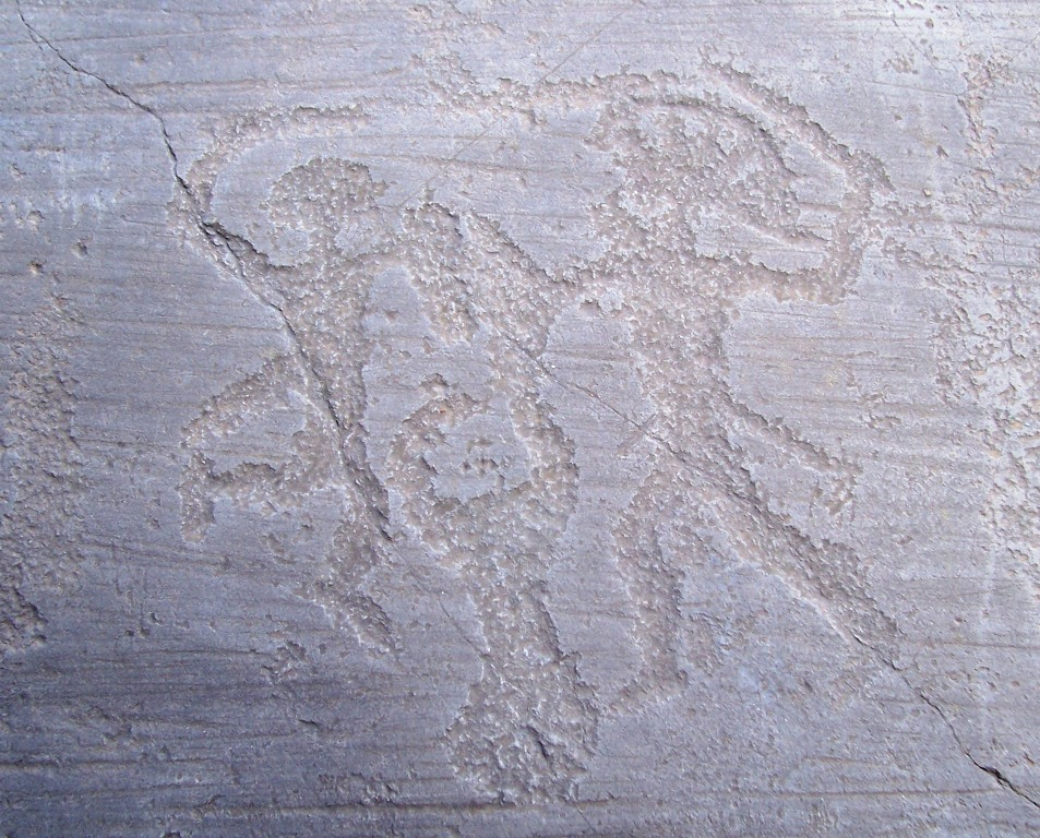 Petroglyph of a couple in duel with a "symbol" in the middle. Foppe Area, R. 6, Rock Art Natural Reserve of Ceto, Cimbergo and Paspardo. Nadro, Rock Drawings in Valle Camonica.